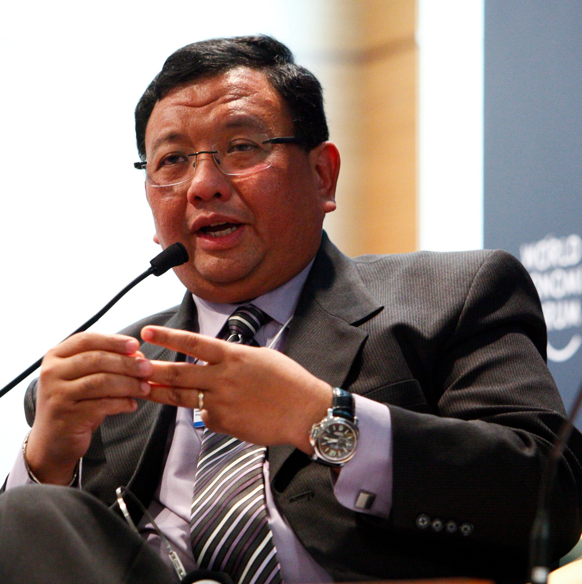 HO CHI MINH CITY/VIETNAM, 7JUN10 - Jose Rene D. Almendras, President, Manila Water Company, Philippines captured during the World Economic Forum on East Asia in Ho Chi Minch City, Vietnam, June 7, 2010. Copyright World Economic Forum ( Sikarin Thanachaiary